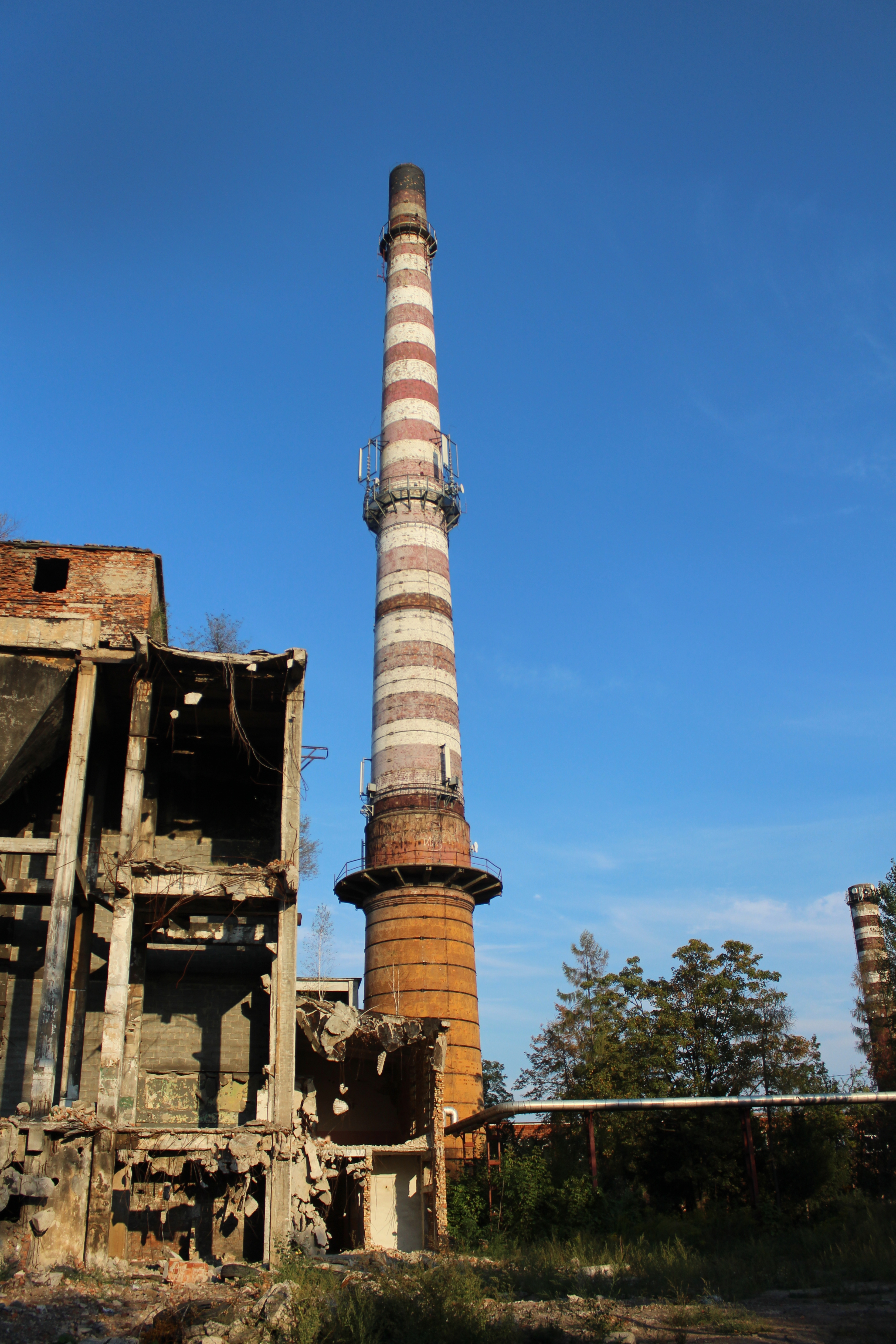 Large chimney of former Chemitex-Works in Sochaczew